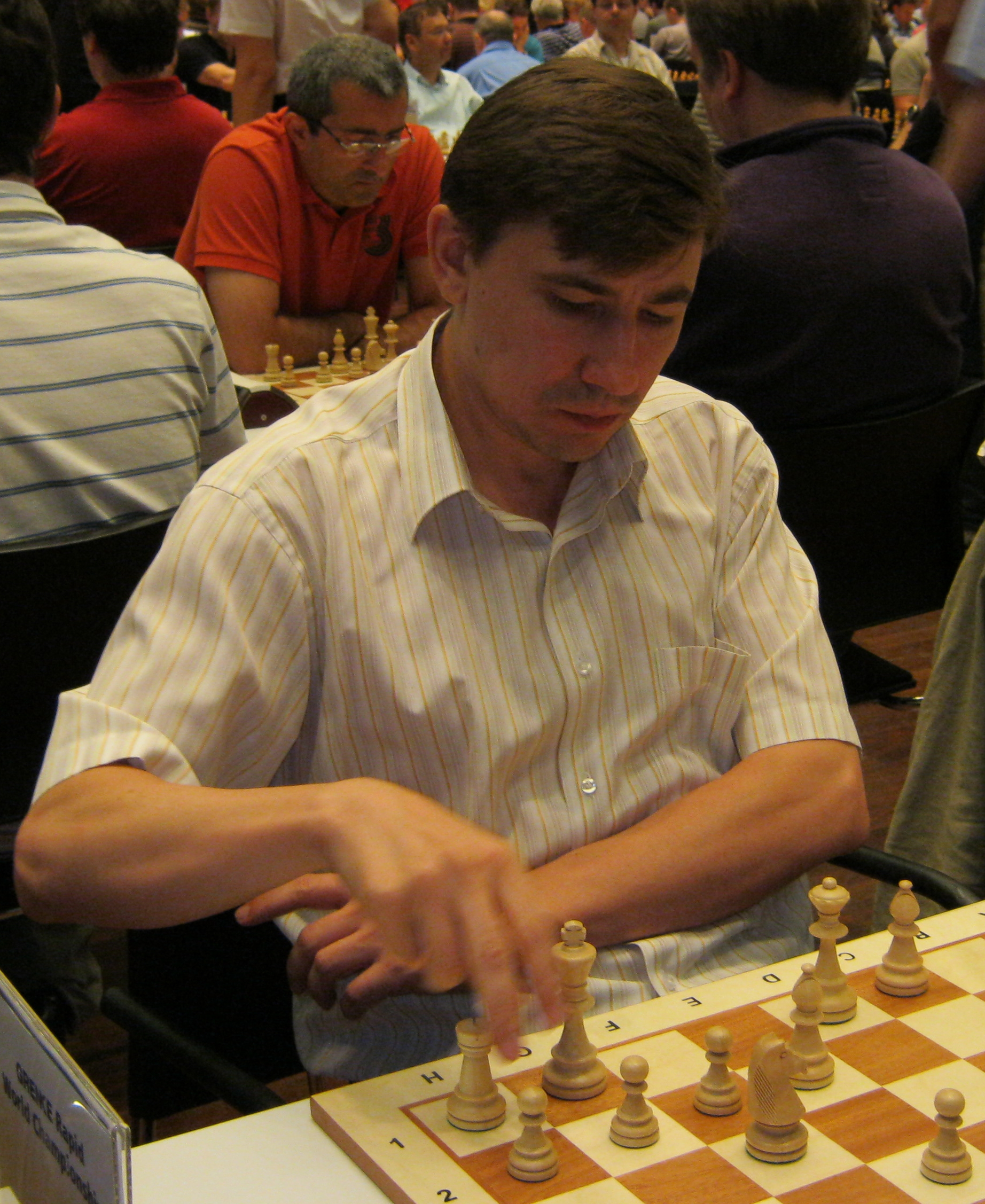 Evgeny Bareev, Russian chess grandmaster